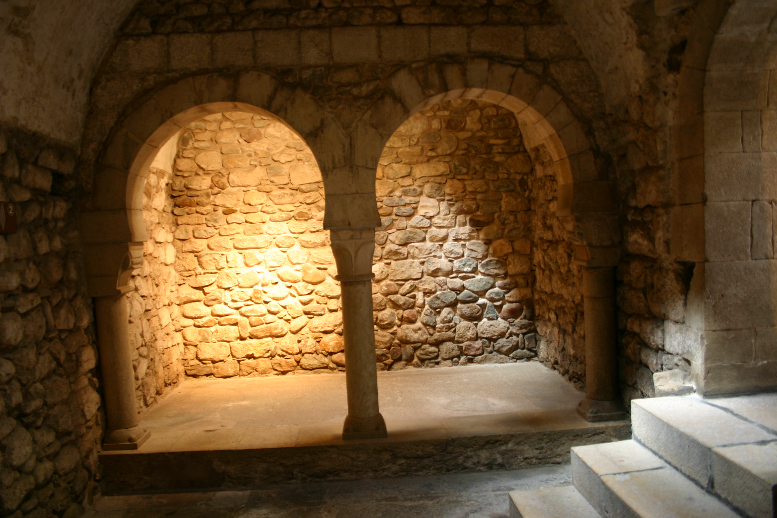 Frigidarium (Cold room). Arab baths in Girona, Catalonia (Spain). (XIII Century)